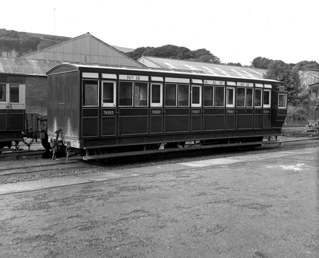 Manx Northern Railway Brake-composite coach The Manx Northern Railway ran from the junction at St. Johns to Ramsey via Kirk Michael, and also the Foxdale branch from St. Johns. All of this closed years ago, and not many of this railway's vehicles have survived, but this brake-composite, No. 15, has been restored and was seen just outside Douglas station